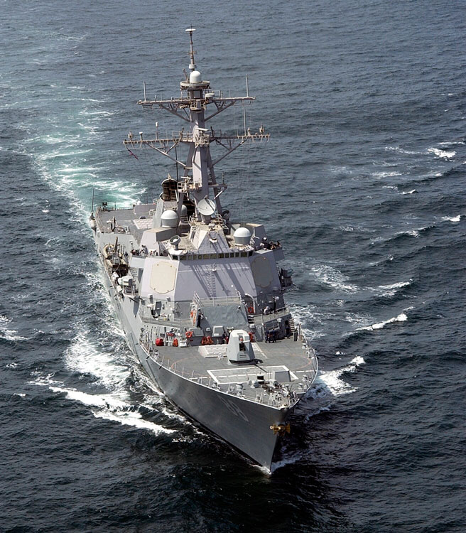 The USS Preble (DDG-88) Cropped version of: 040922-N-5471P-005 Arabian Sea (Sept. 22, 2004) - The guided missile destroyer USS Preble (DDG 88) cruises in the Arabian Sea during the exercise Inspired Siren 2004. The exercise will focus on joint naval and air capabilities, improving their respective levels of readiness, interoperability and enhancing military relations between the two nations. U.S. Navy photo by Photographer's Mate 2nd Class Aaron Peterson (RELEASED)